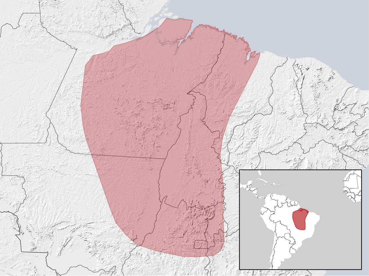 geographic distribution of Proechimys roberti